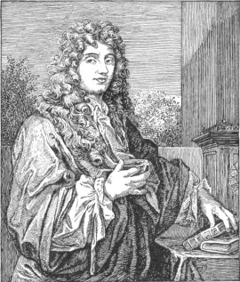 Christiaan Huygens, 1629-1695, Dutch mathematician, astronomer and Science Fiction writer